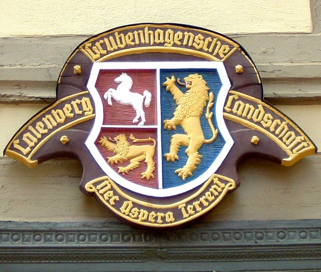 Coat of Arms of Calenberg-Grubenhagen, on the front of a house in Göttingen, Germany.